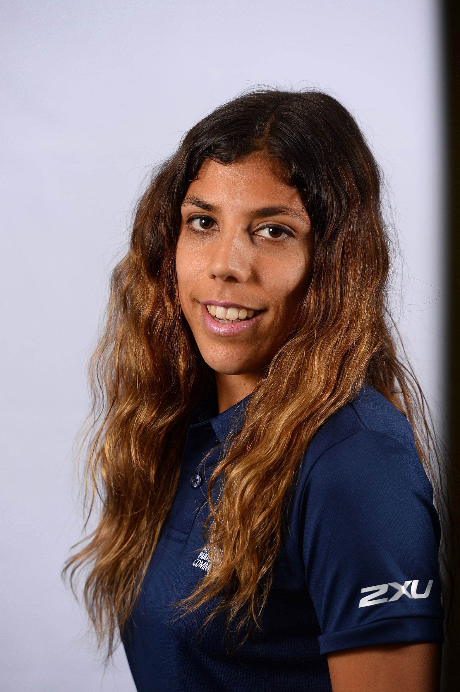 Portrait photograph of Ella Pardy taken at team processing session for shadow members of 2016 Australian Paralympic team